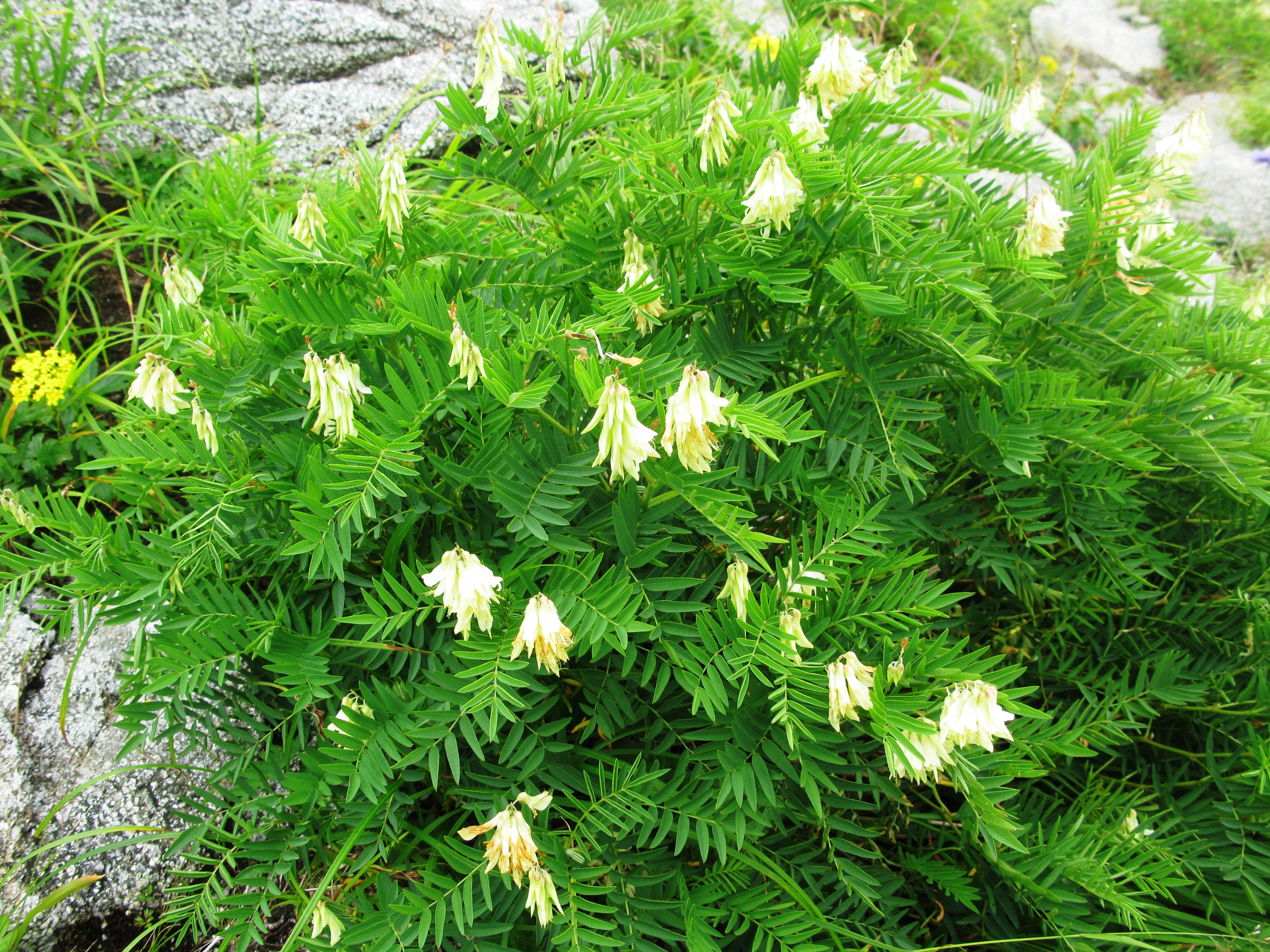 Hedysarum vicioides subsp. japonicum, Mt. Iidesan, Fukushima pref., Japan